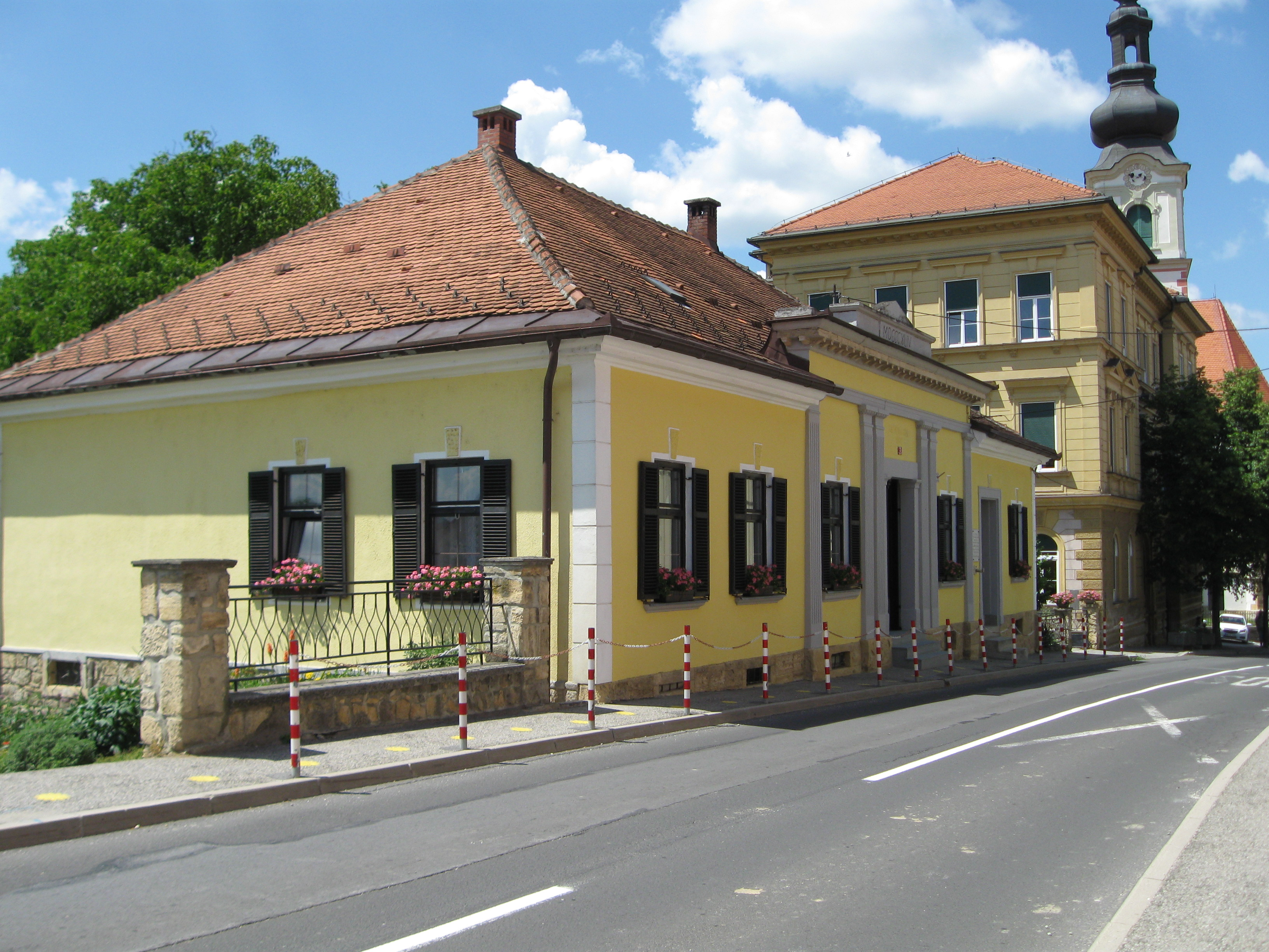 House on Ptujska Cesta within Lenart, in which is during years 1908-45 lived judge and writer Dr. Ožbolt Ilainig.